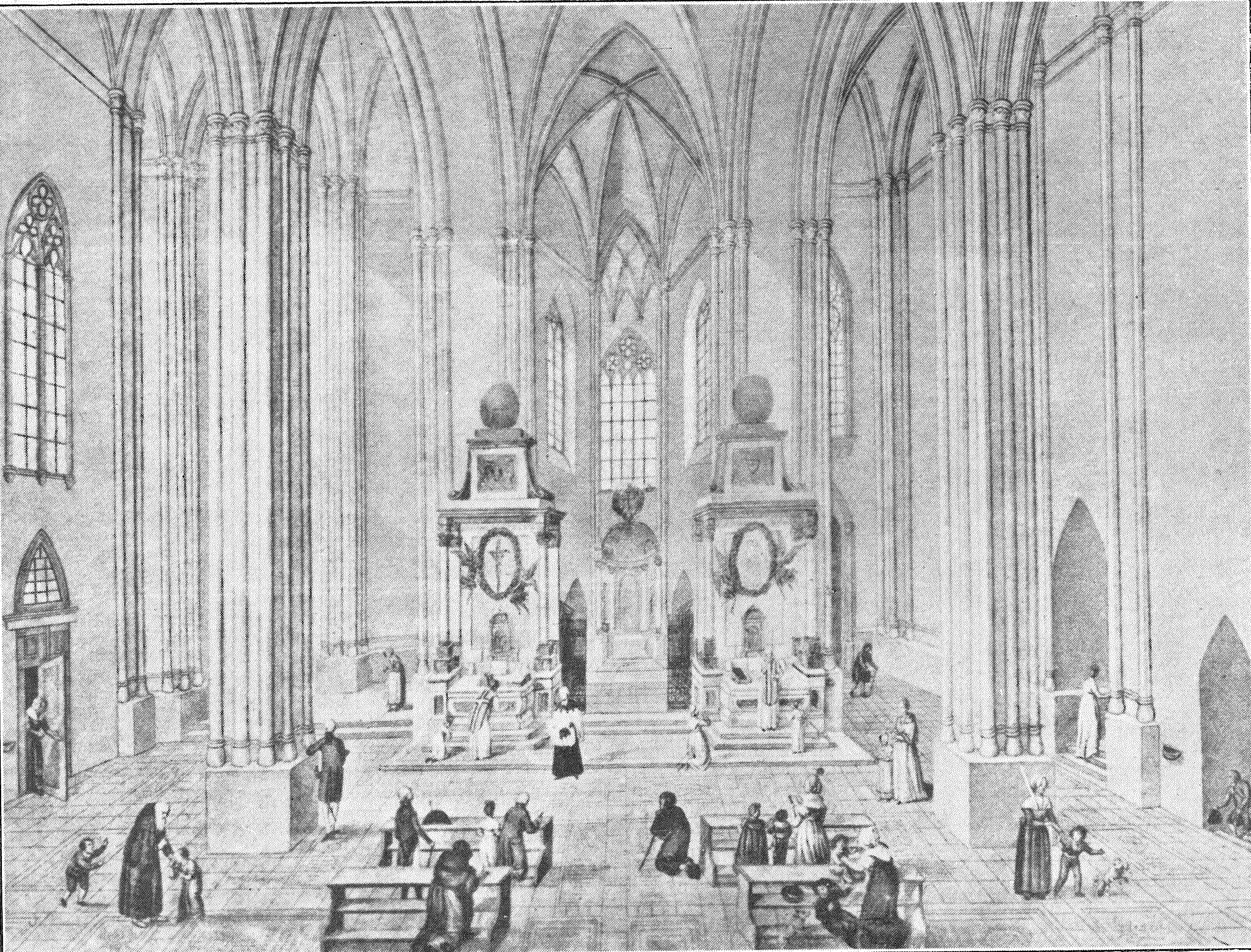 Interior Historical Collegiate Church of St. Maria ad gradus